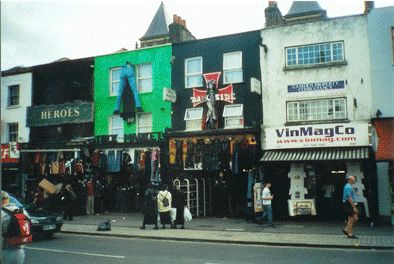 Camden Town